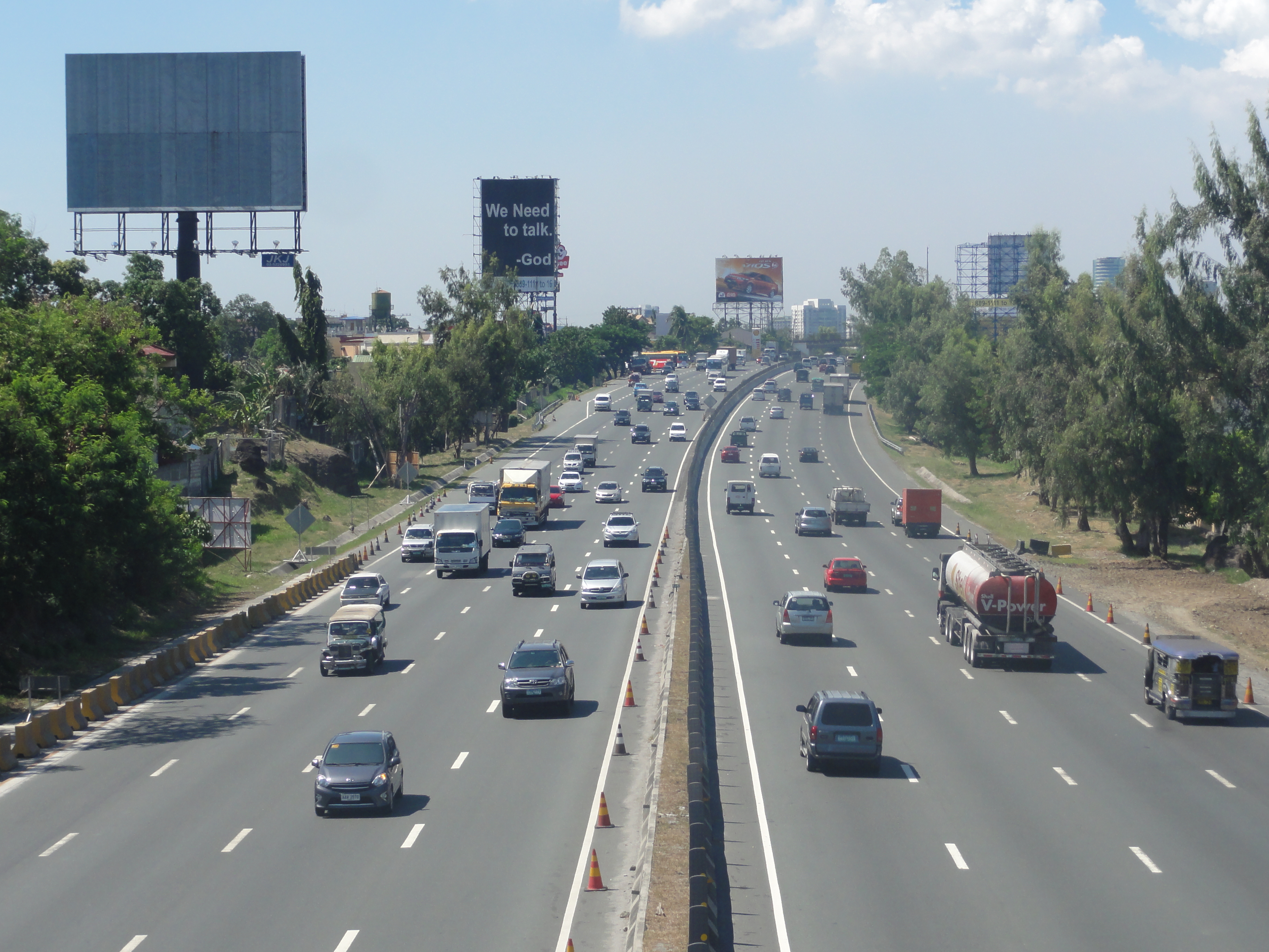 View of a portion of South Luzon Expressway (SLEX) at Bilibid area, Muntinlupa City as of April 2014.